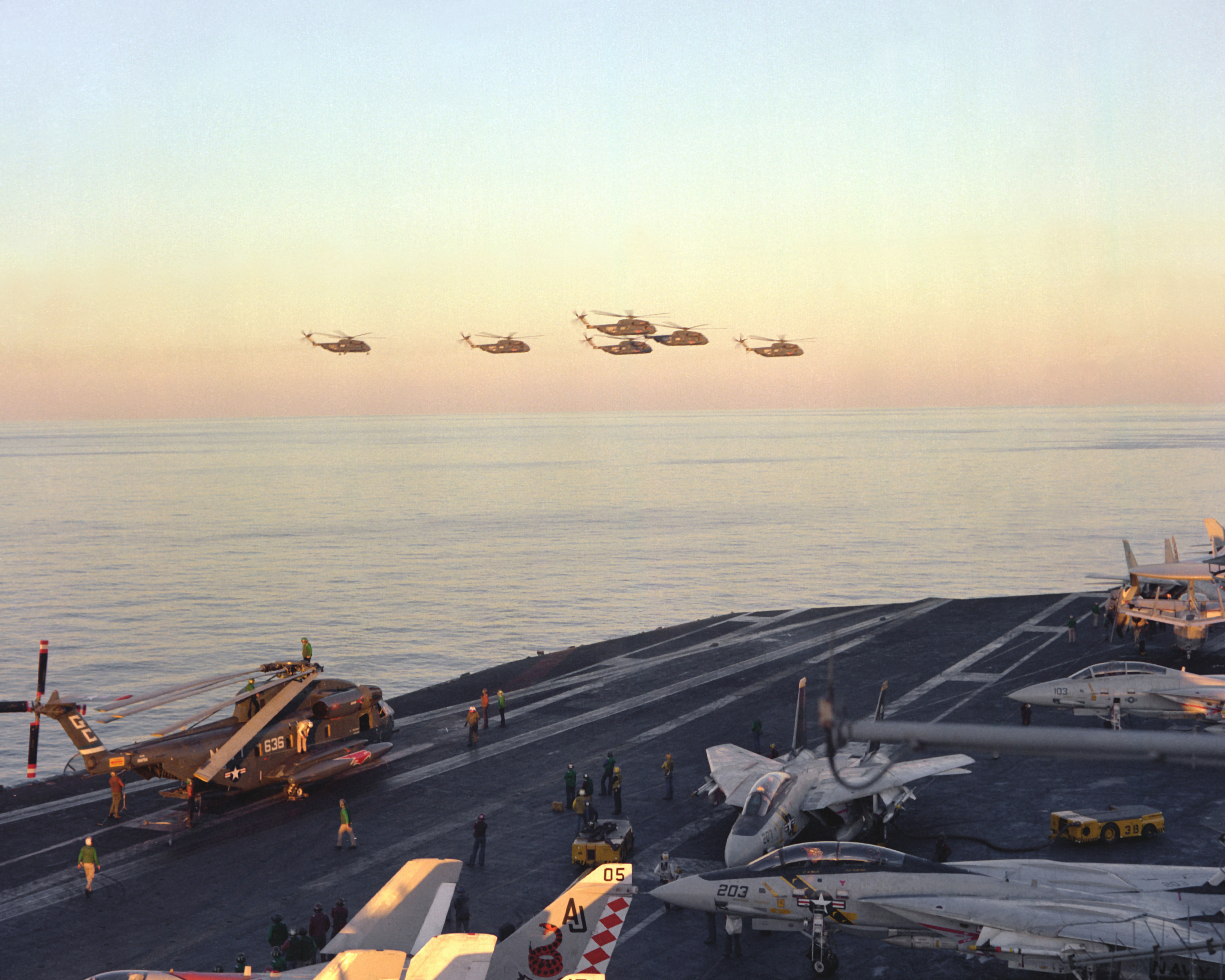 Six U.S. Navy Sikorsky RH-53D Sea Stallion helicopters of helicopter mine countermeasures squadron HM-16 Sea Hawks fly over the aircraft carrier USS Nimitz (CVN-68) in preparation of "Operation Evening Light" (Eagle Claw), in the Arabian Sea in April 1980; a seventh is visible on the flight deck. Six helicopters would be lost during the failed attempt to rescue U.S. hostages in Iran on 24 April 1980. Several aircraft of Nimitz´ Carrier Air Wing 8 (CVW-8) are visible. In the foreground are two Grumman F-14A Tomcats of fighter squadron VF-84 Jolly Rogers and a LTV A-7E Corsair II from VA-86 Sidewinders. For "Eagle Claw" all aircraft would be painted with black-red-black identification stripes.